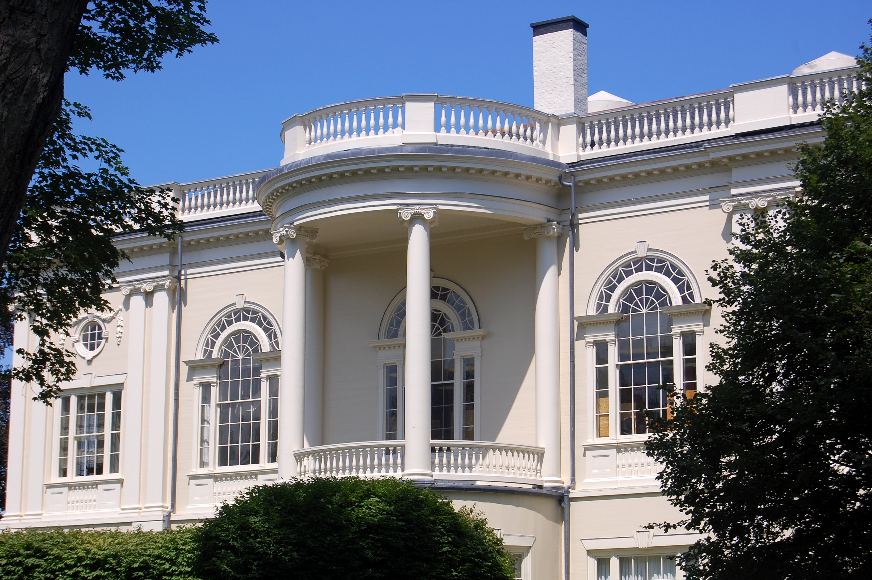 Peabody Institute Library of Danvers, a prominent library in Danvers, Massachusetts